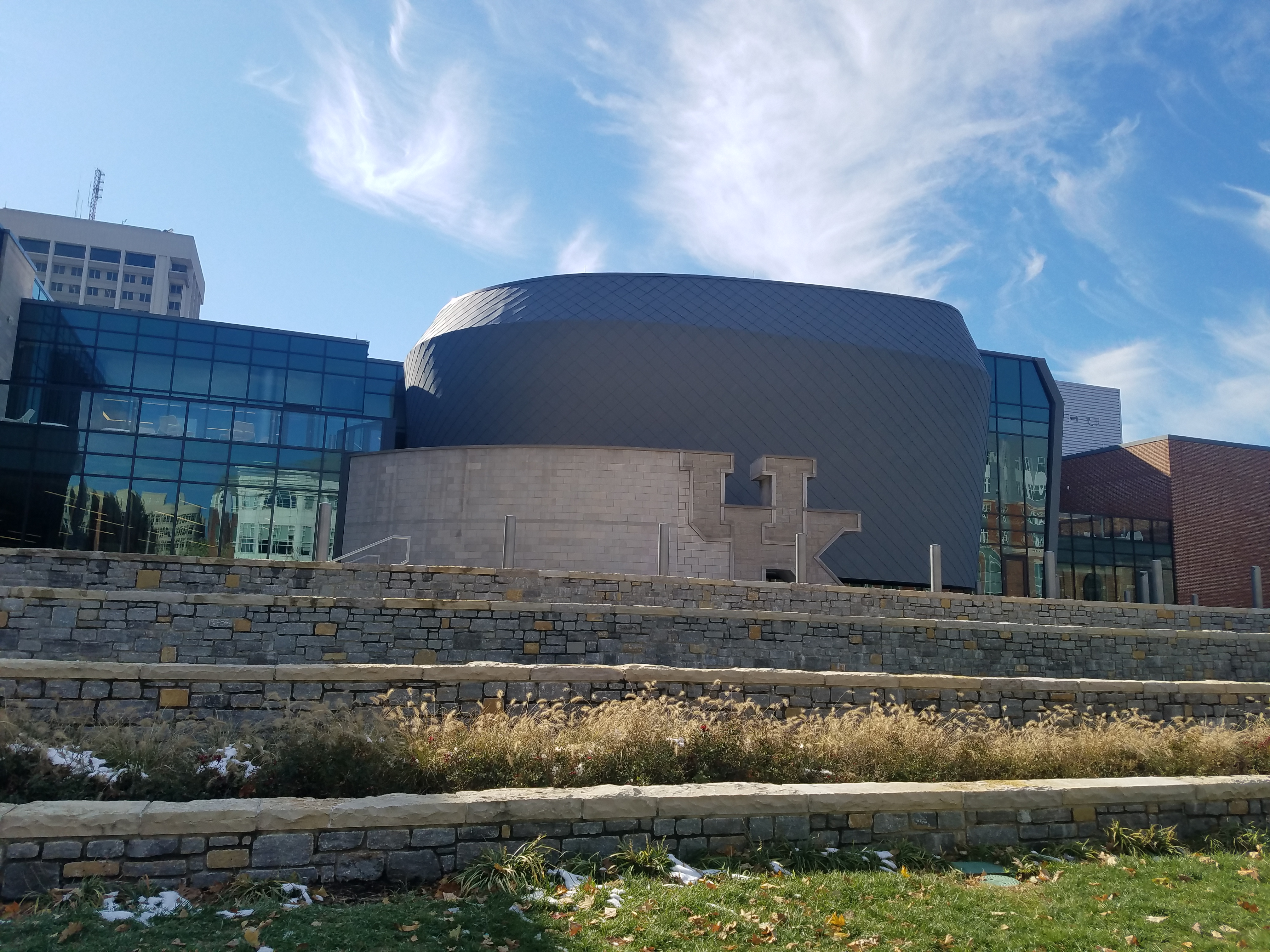 Photograph of the Gatton Student Center at the University of Kentucky.